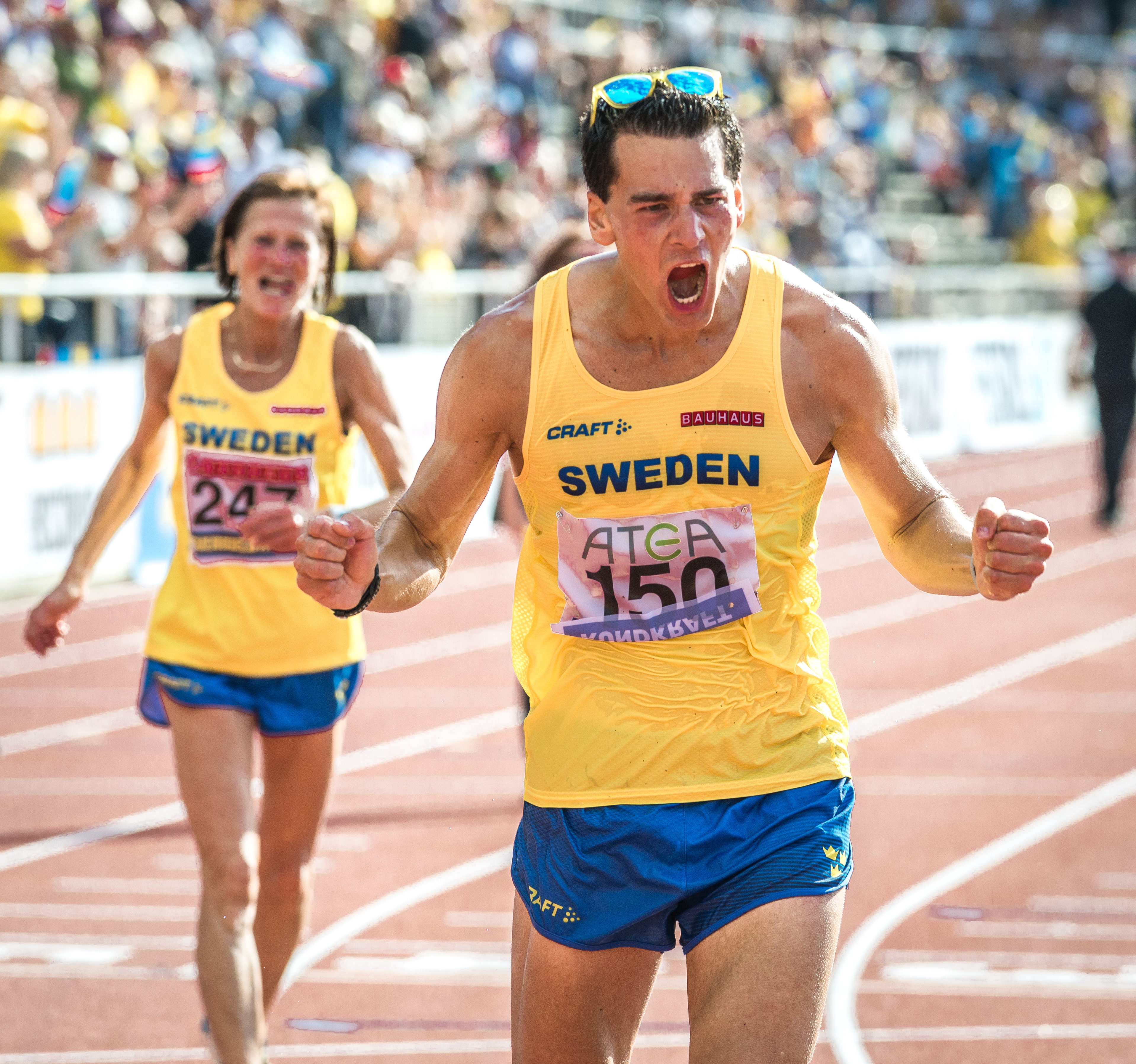 Perseus Karlström during the Finland-Sweden Athletics International at Stockholms Stadion on August 24, 2019.